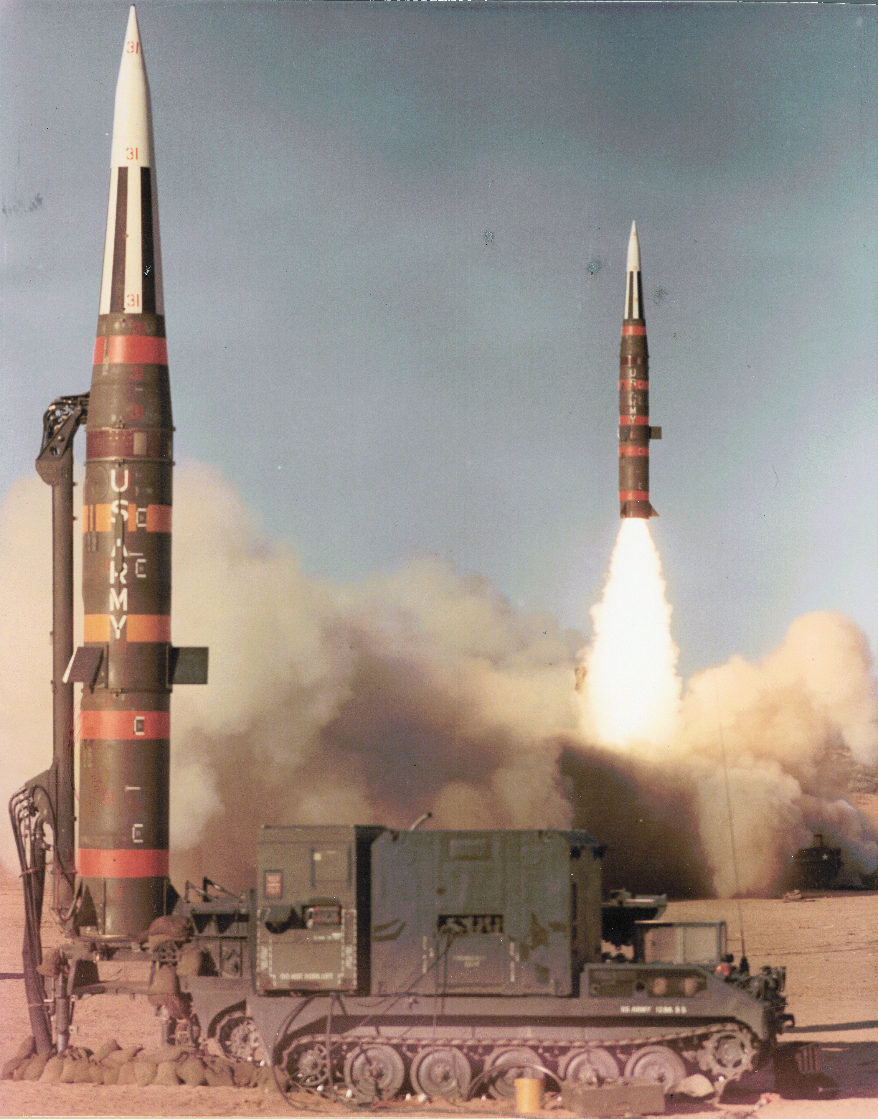 29-040-0522-999 CN 66c WSMR Pershing Project Pershing missile ARTY/ORD round 32 roars skyward, T-time 0815 hours at Hueco Range, Ft. Bliss, Texas. Launch crew from "A" Btry, 2nd F. of 79th Bn. Pershing missile in foreground is in countdown simultaneously. Missile in foreground assembled by "C" Btry, 2nd of 79th Bn. After several minutes flight, it impacted on White Sands Missile Range, New Mexico. 16 Feb 66 Photographer: Warren C. Weaver, Civ. US Army Photograph White Sands Missile Range, New Mexico